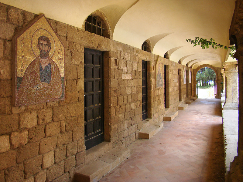 Monastery of Filerimos, Rhodes, Greece.